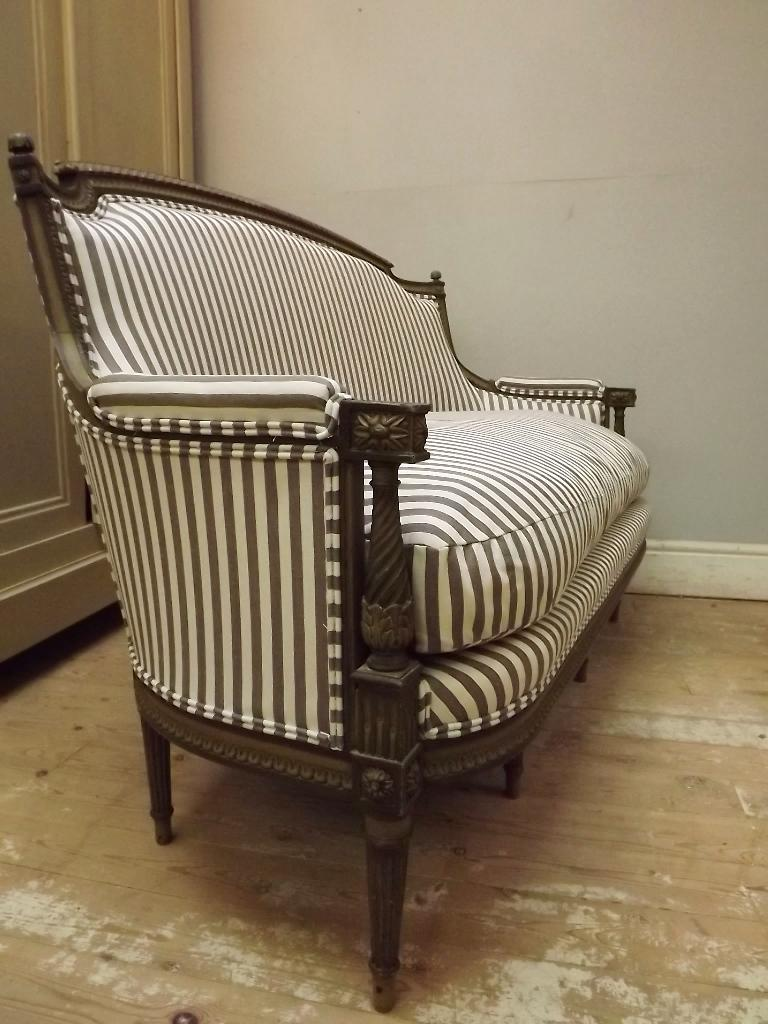 An antique settee re-upholstered in striped ticking fabric.